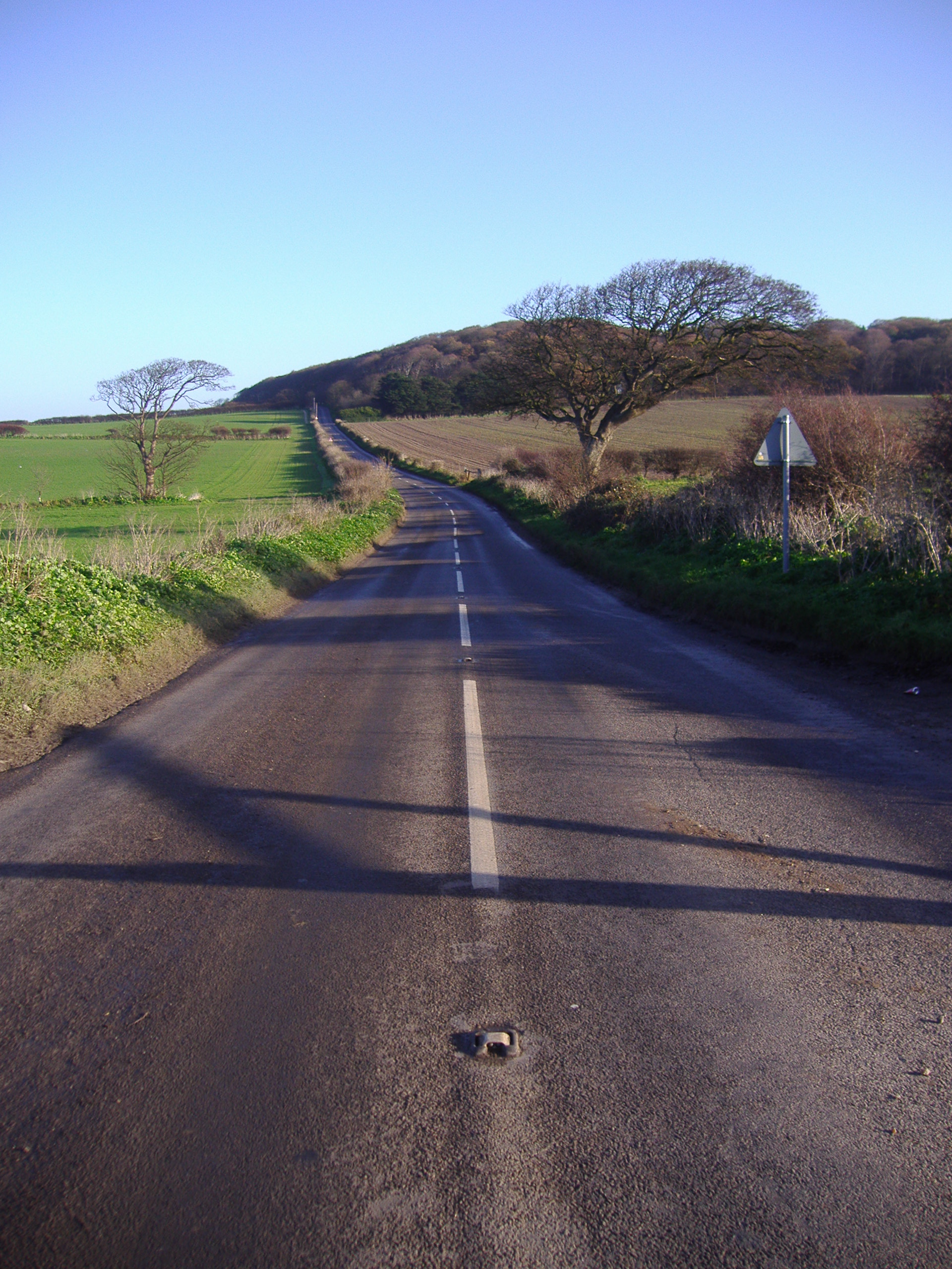 Looking east along Sheringham Road (A149) between the village of Weybourne and the town of Sheringham, Norfolk, England.